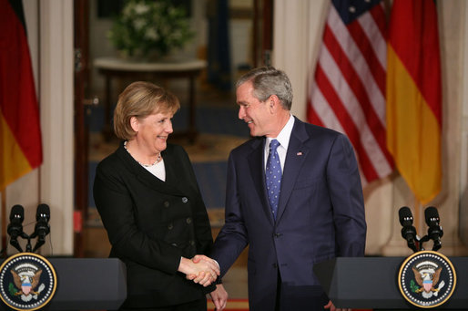 U.S. President George W. Bush and German Chancellor Angela Merkel shake hands at the conclusion of their joint news conference at the White House, Thursday, Jan. 4, 2007.